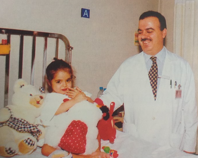 The first in-situ liver transplant in Lebanon and the Middle East